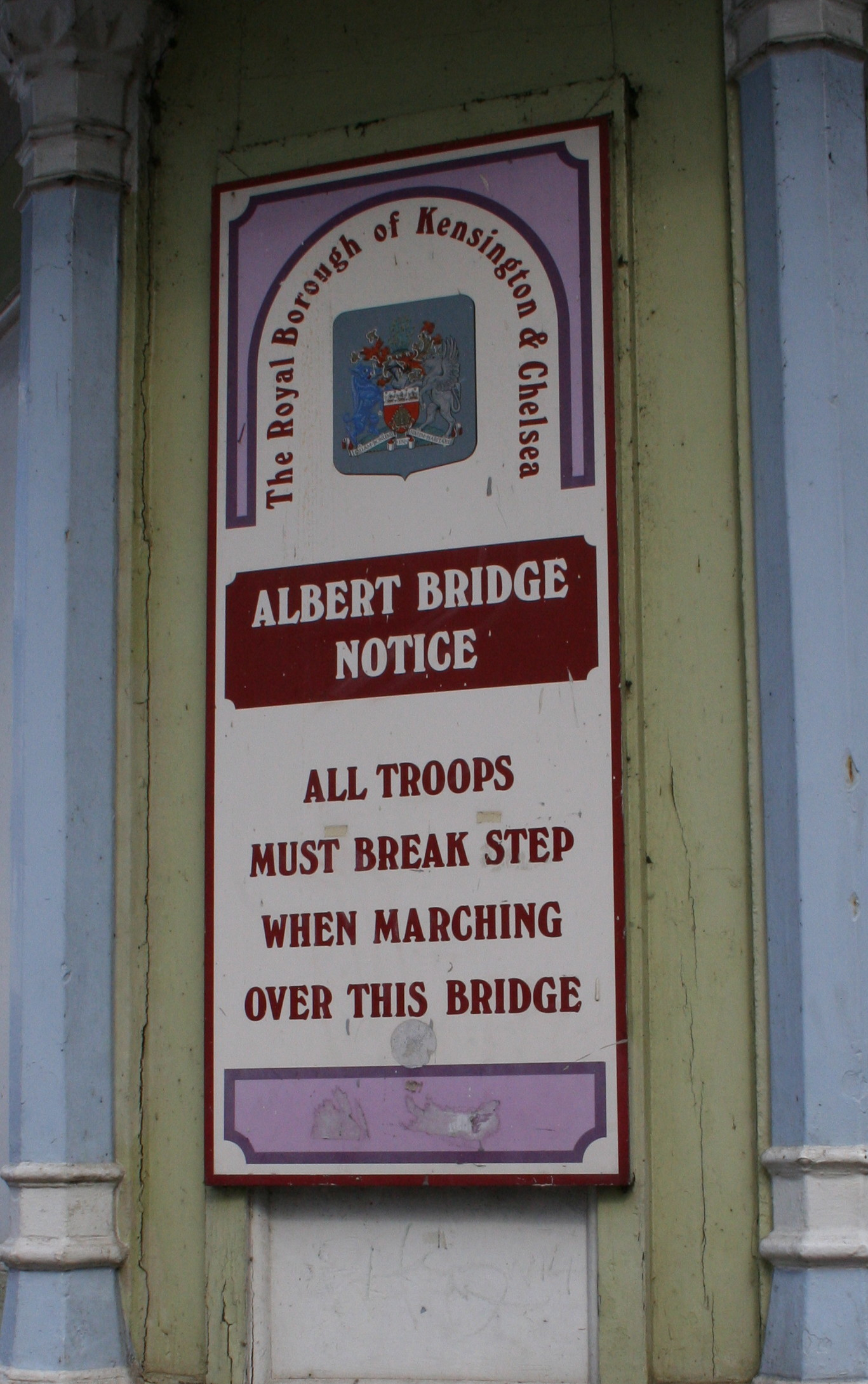 Photo taken by me and released to the public domain.